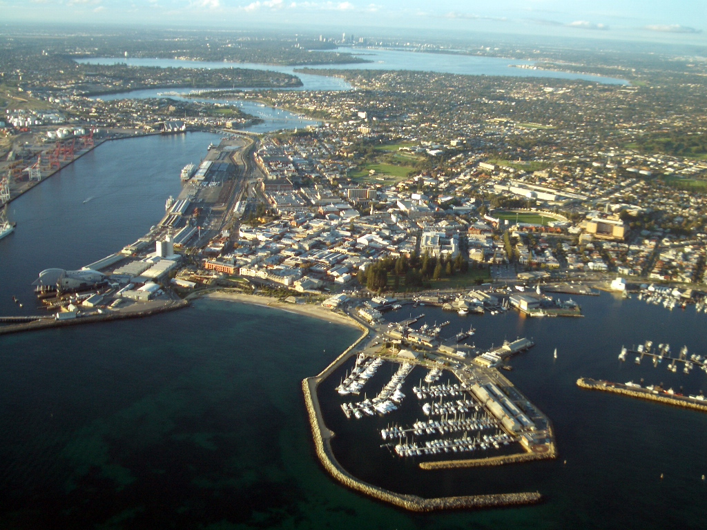 Fremantle and the Swan River viewed from the air, looking east towards Perth CBD. Photograph taken by Kristian Maley, 4 June 2005.